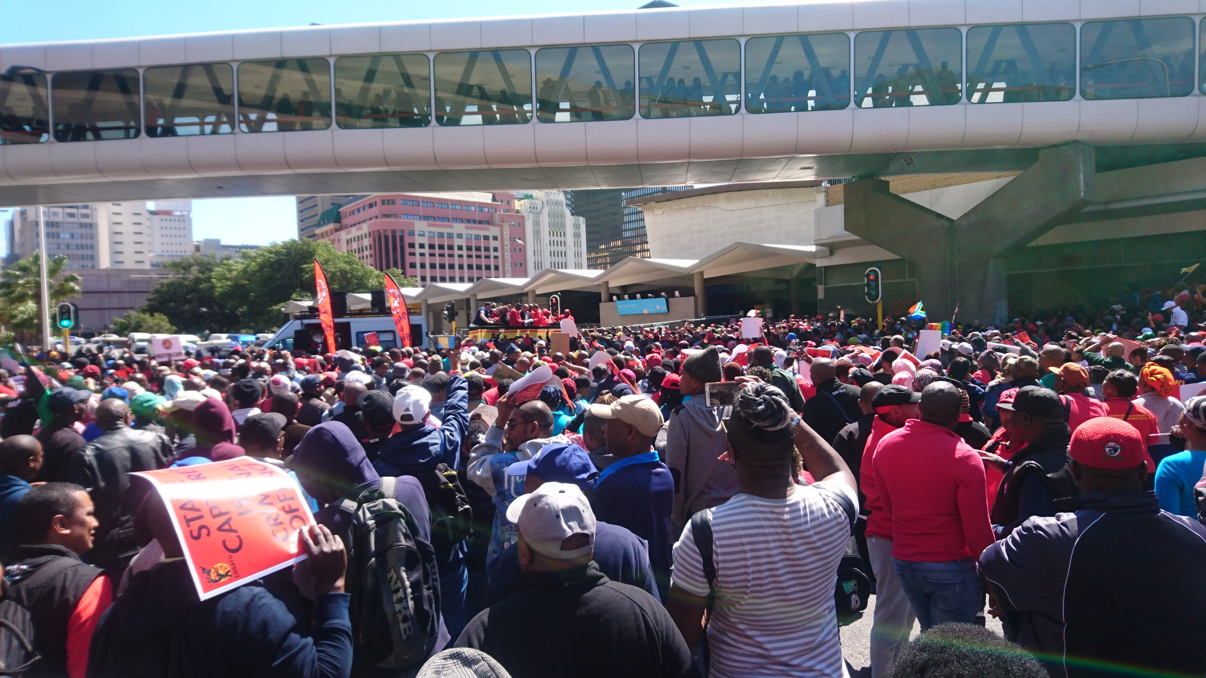 A protest organised by the South African trade union COSATU in Cape Town South Africa to call for an end to state capture and prosecution of those involved in the administration of President Jacob Zuma.